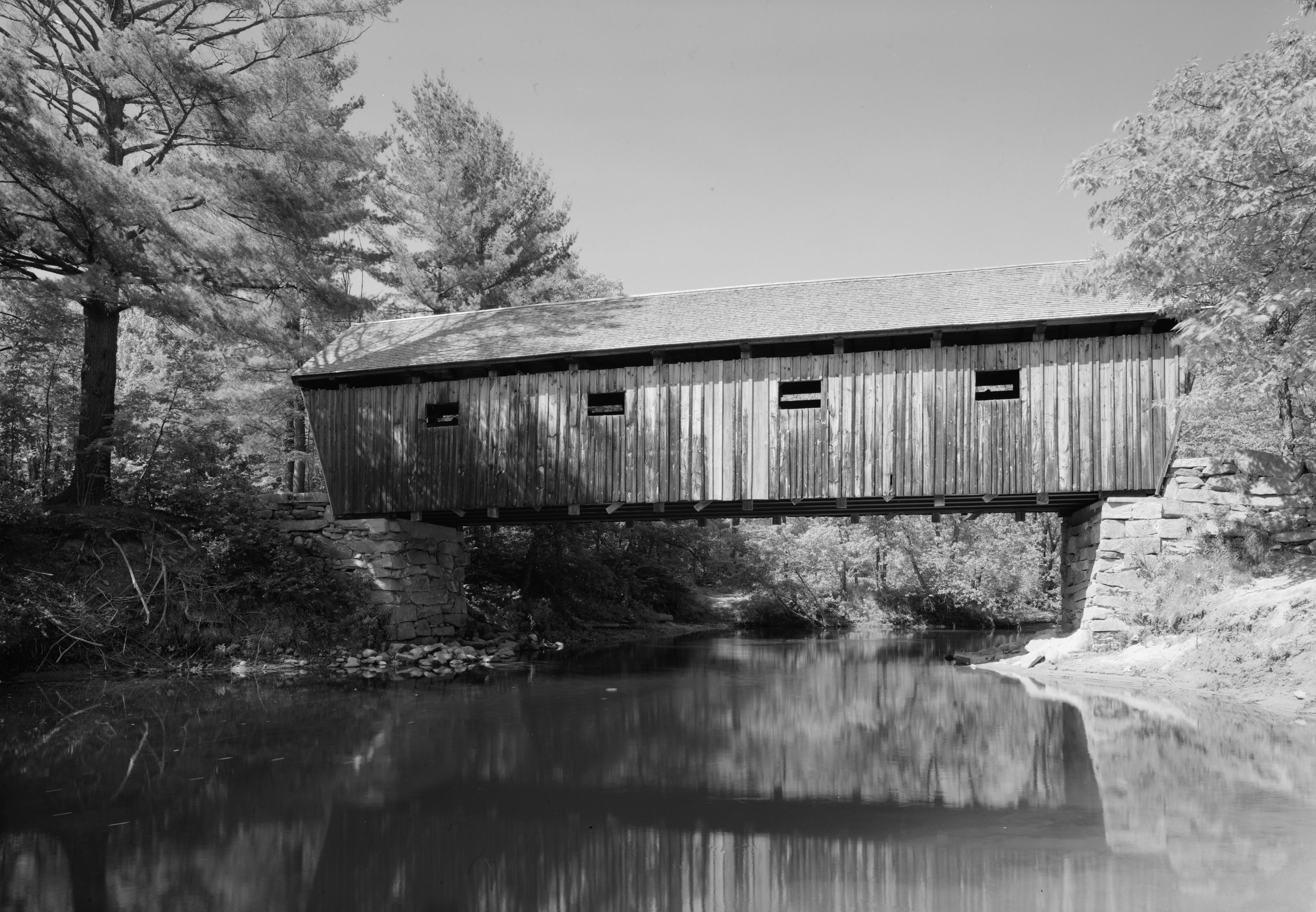 Side of the Lovejoy Bridge, which spans the Ellis River in South Andover, Maine, United States. Built in 1868, it is listed on the National Register of Historic Places.